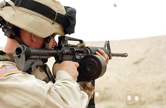 An 82nd Airborne Division paratrooper fires his M-4 equipped with a C-MAG 100-round magazine July 23, 2003 at the Kandahar Air Field weapons range.